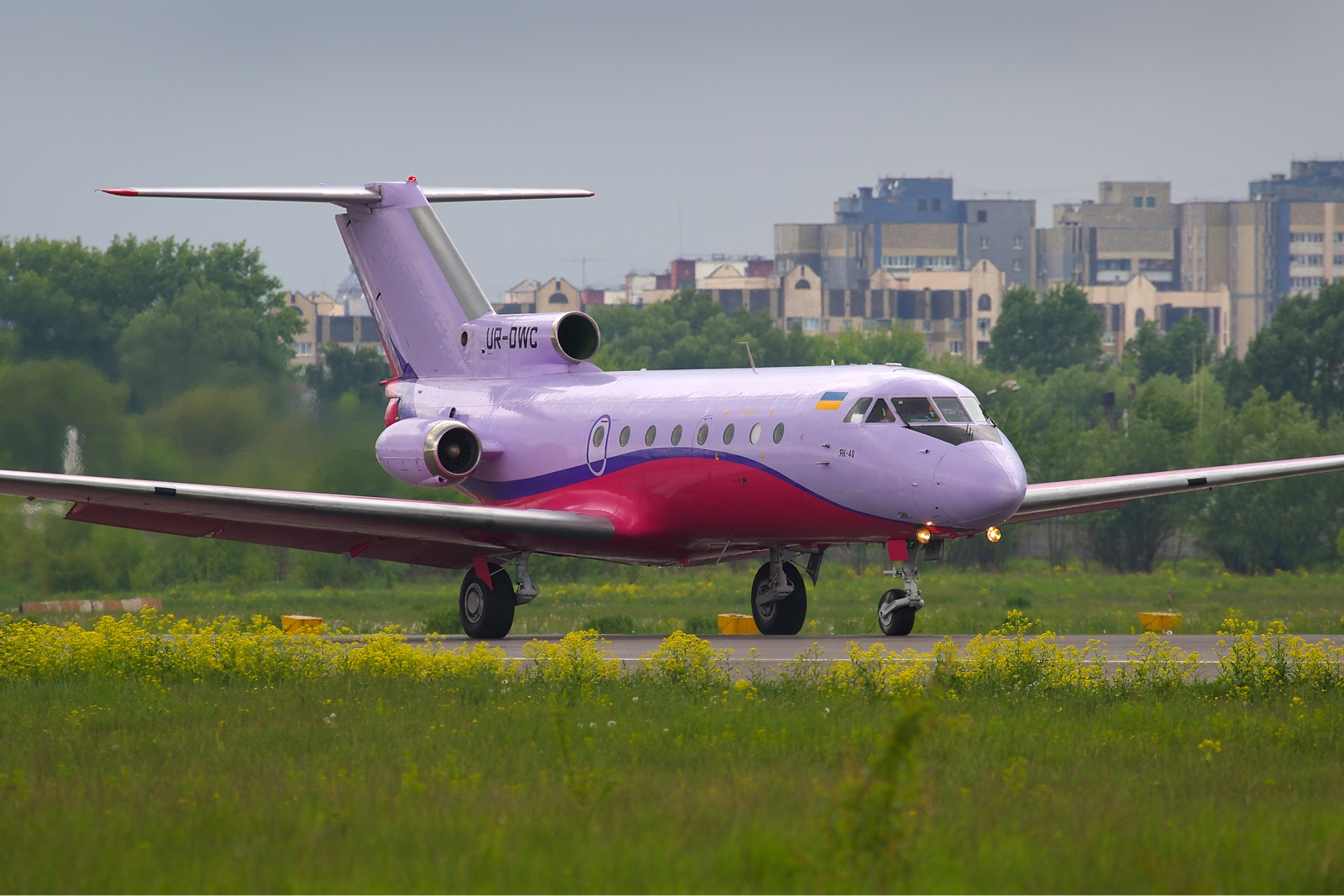 Aero-Charter Airlines Yakovlev Yak-40. As the photographer writes, this image will force you to re-calibrate your monitor.